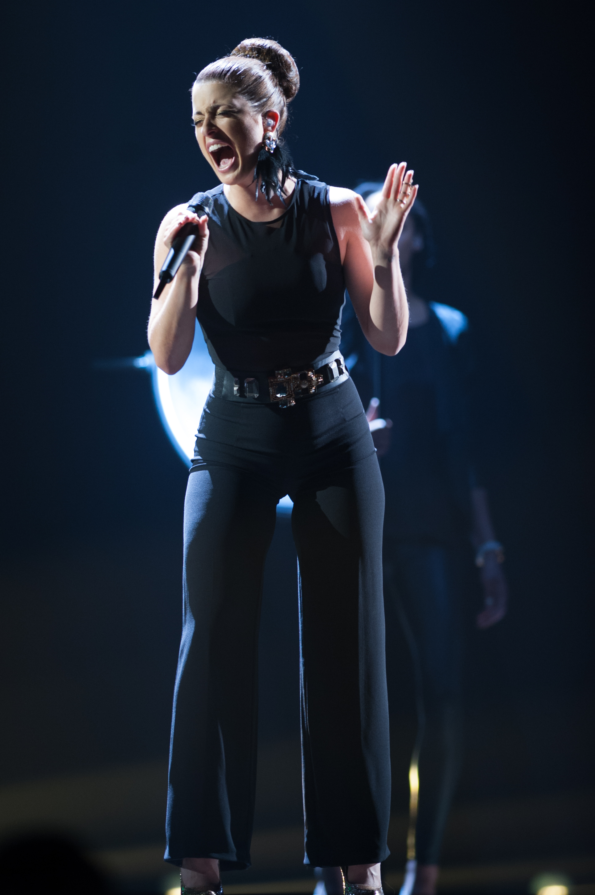 Eurovision Song Contest Vienna 2015: Ann Sophie